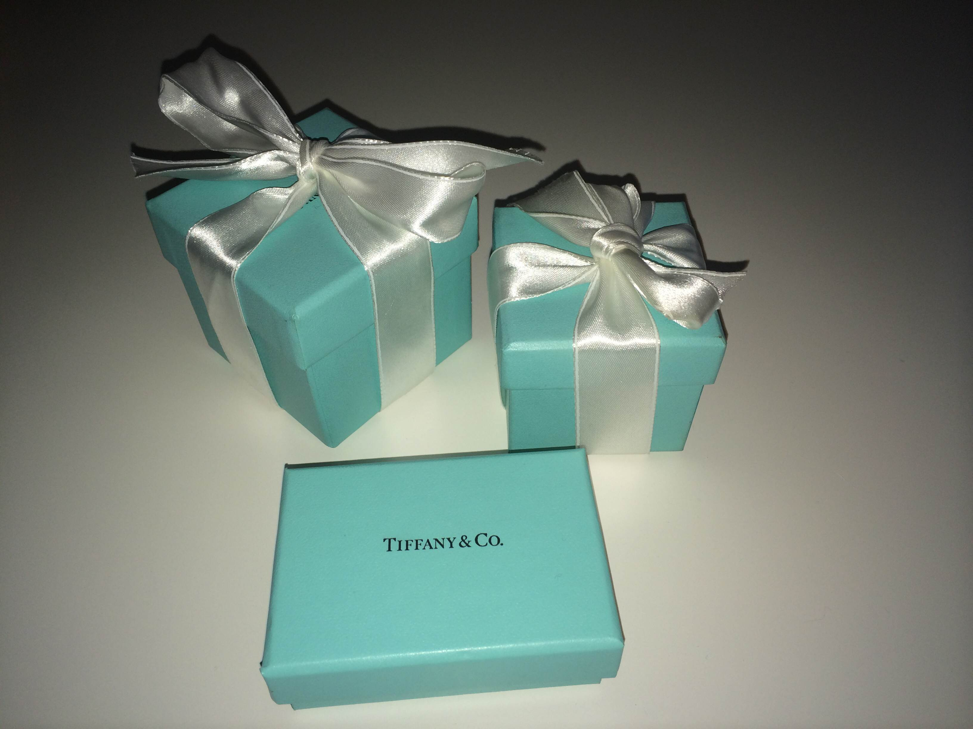 tiffany box 1